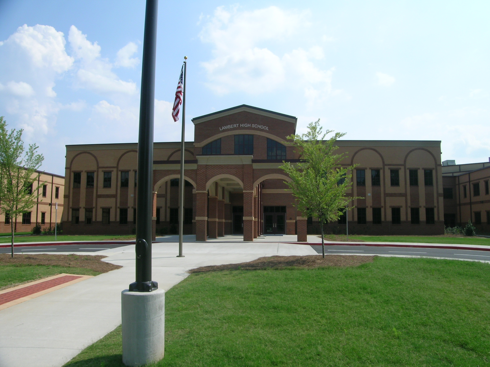 This is a picture of the front entrance of Lambert High School in Suwanee, Forsyth County, Georgia.